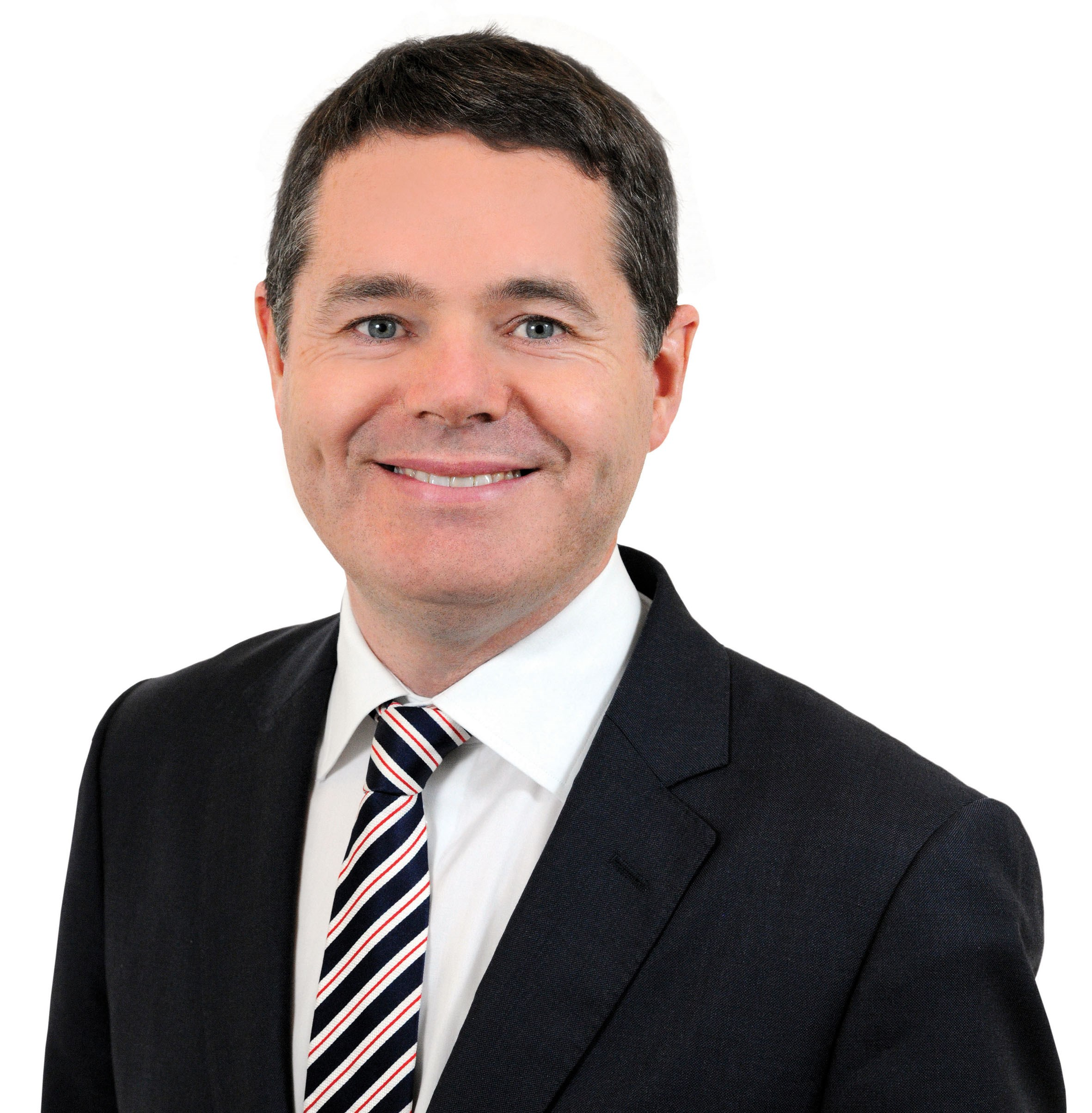 Minister for Finance and Public Expenditure & Reform, Paschal Donohoe TD (Dublin Central)